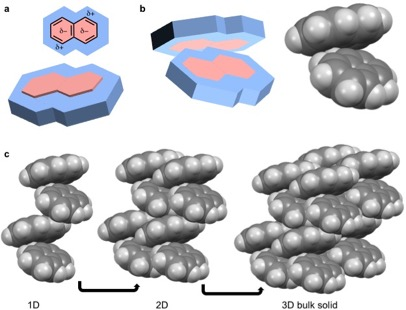 Quadrupole bonding highlighted in naphthalene crystal. Depiction of how intermolecular interactions give rise to ordering of the compound in three dimensions.